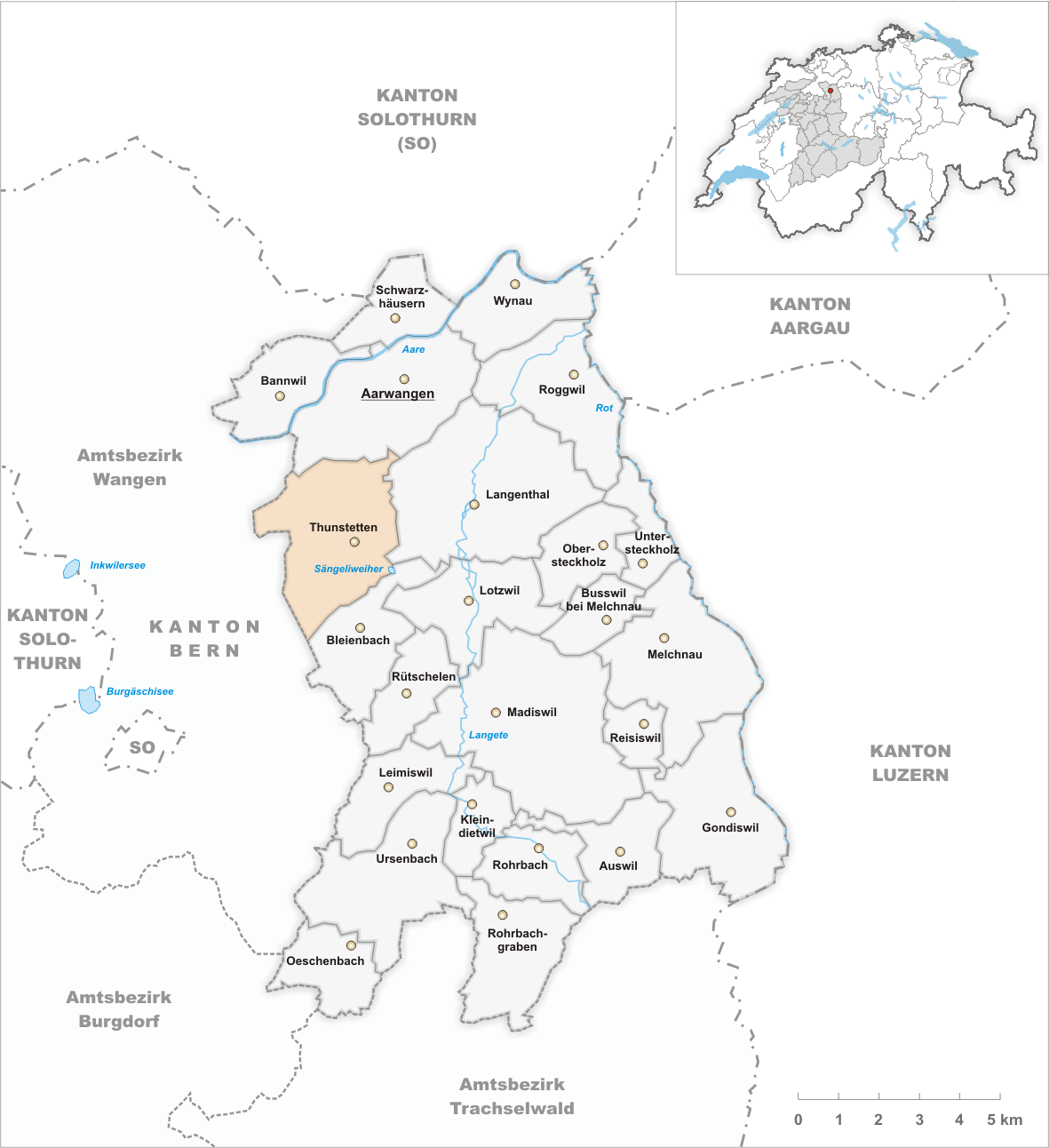 Municipality Thunstetten